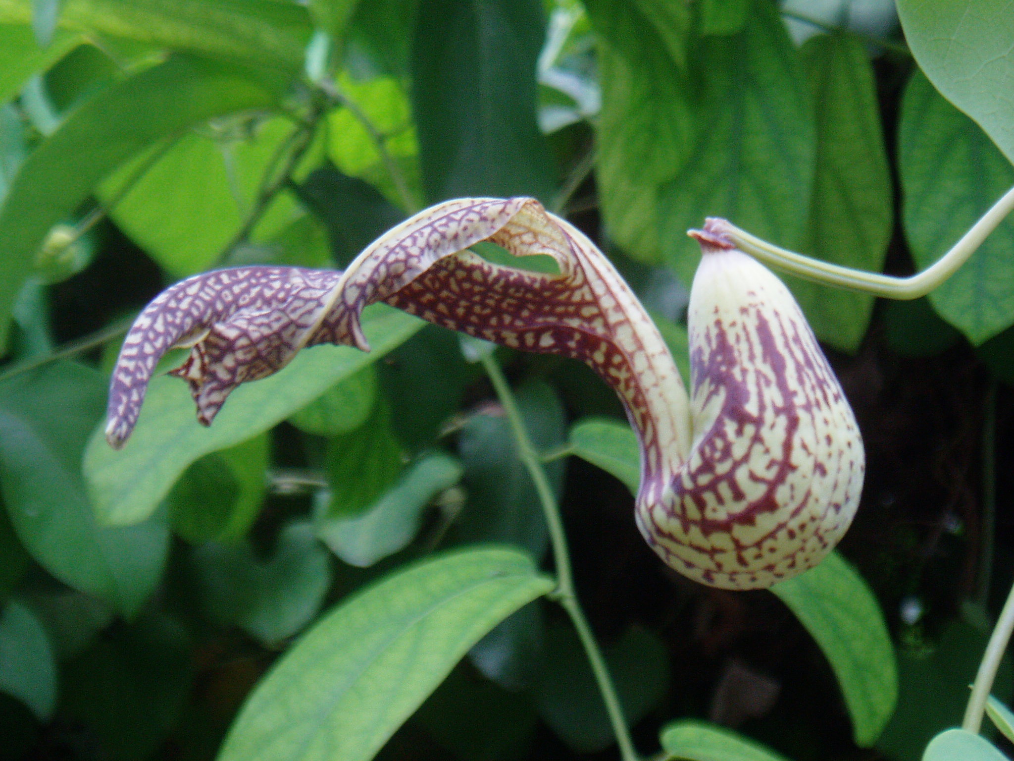 Image taken at Butterfly World Dutchman's pipe Aristolochia gibertii